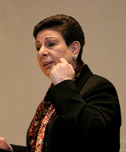 Hanan Aschrawi Hanan Ashrawi was awarded with the Mercator-Professur of the Duisburg-Essen University on 29.11.2007 at the Duisburg Audimax Campus Duisburg